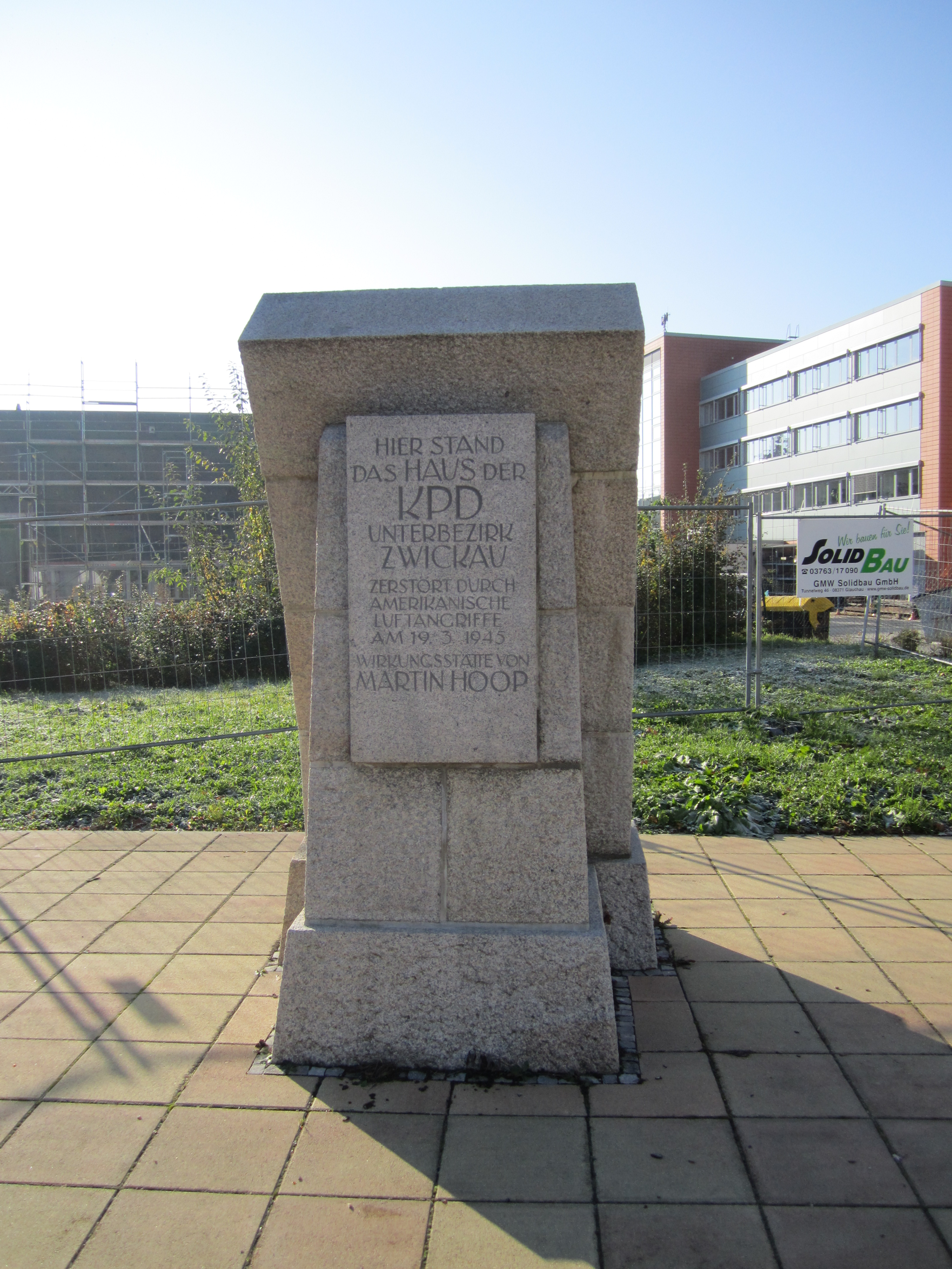 Memorial of the destroyed local KPD headquarter in Zwickau, Saxony, Germany. Translation of the inscription: "At this place stood the house of the communist party of germany, subdivision of Zwickau, destroyed by american bombing raid, march 19th, 1945. Martin Hoop worked here.